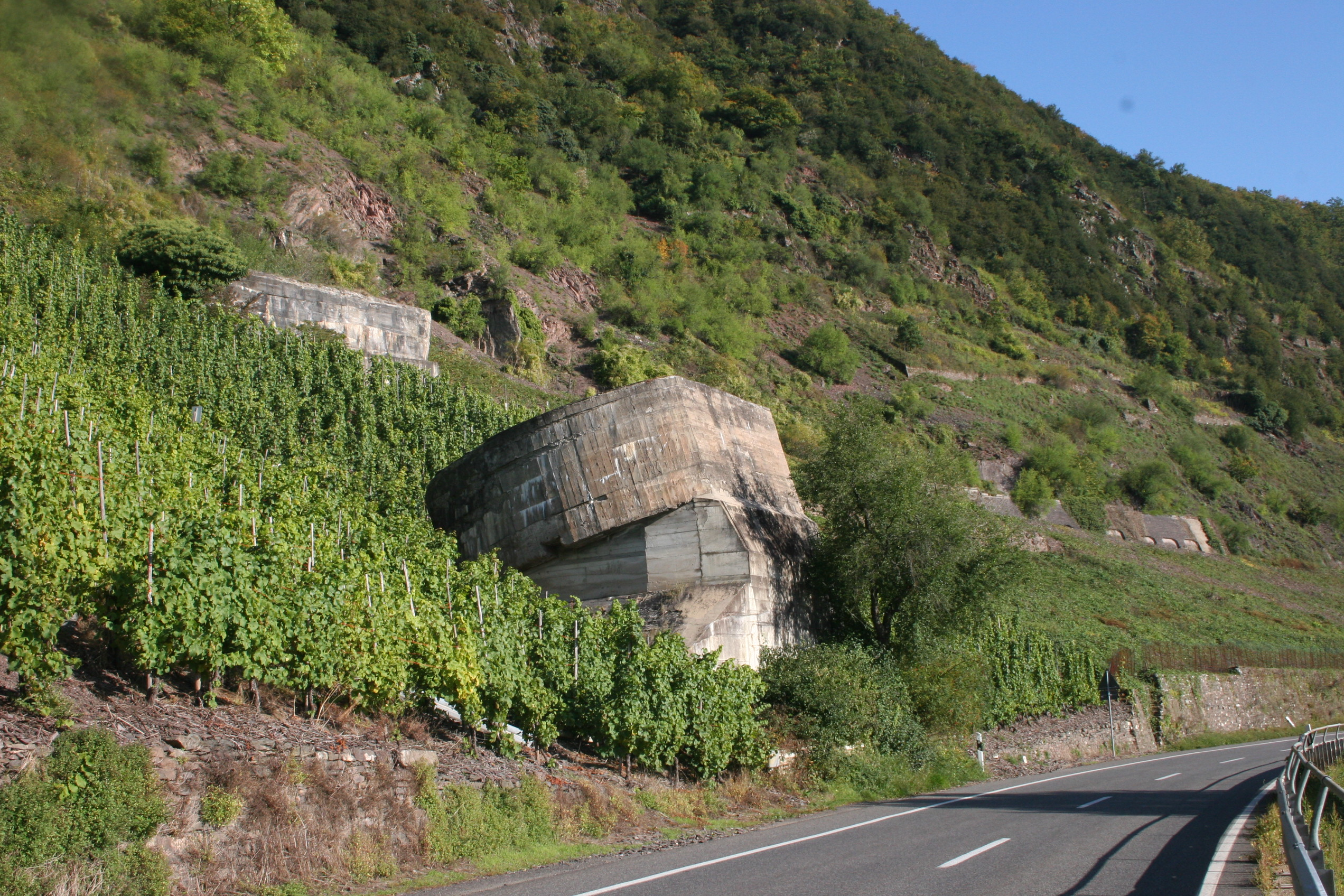 Water tanks below abandoned railway dam near the southern entrance of the Treiser Tunnel north of the village of Bruttig on the Mosel river. Remnant of a planned and partially built, but never completed strategic railway. The watertanks, built in 1944, were part of the constrution site for electronic devices within the tunnel. Inmates of the Concentration Camp of Bruttig-Treis had to work there.